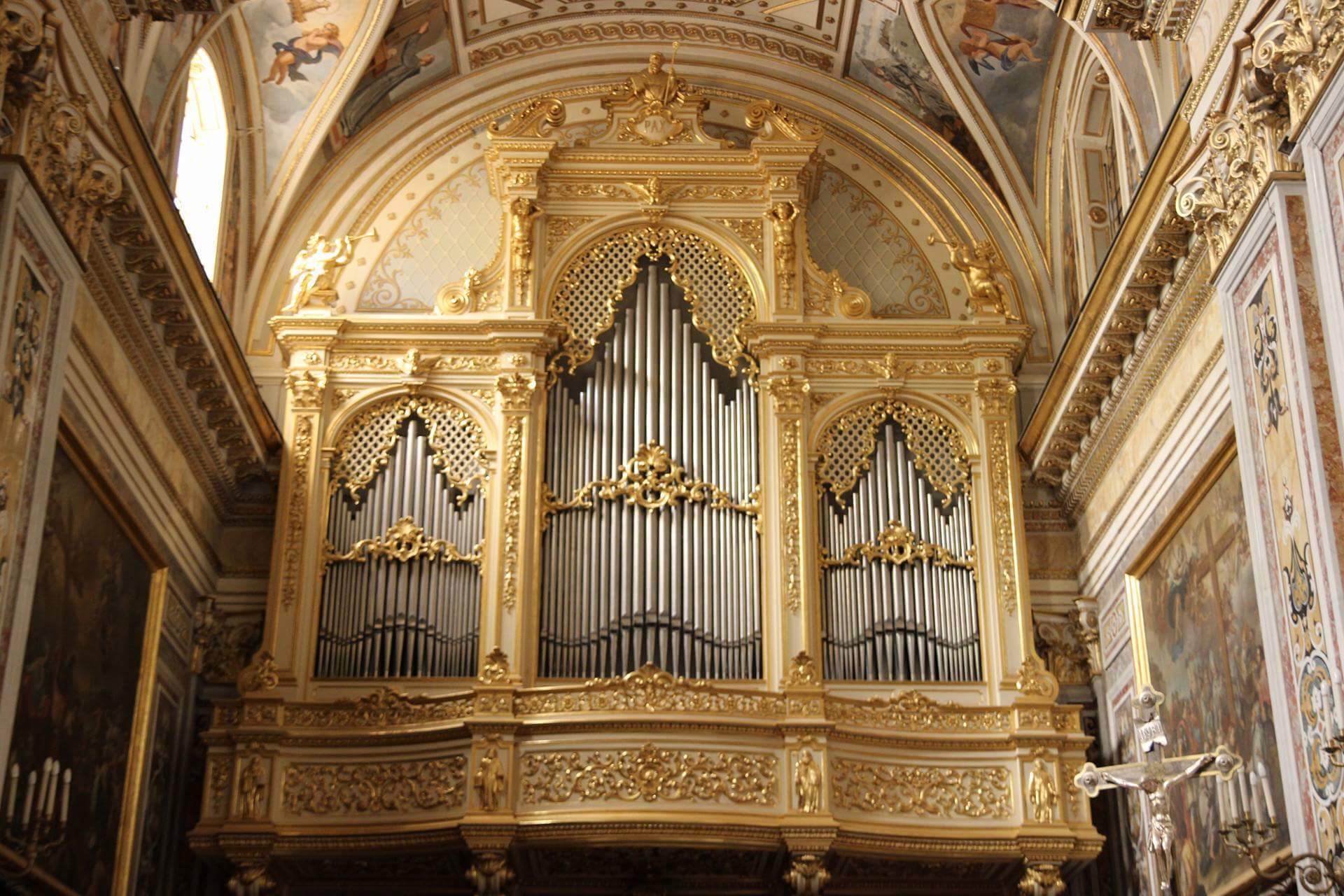 The Great pipe Organ in the Abbey of the Holy Trinity in Cava de' Tirreni